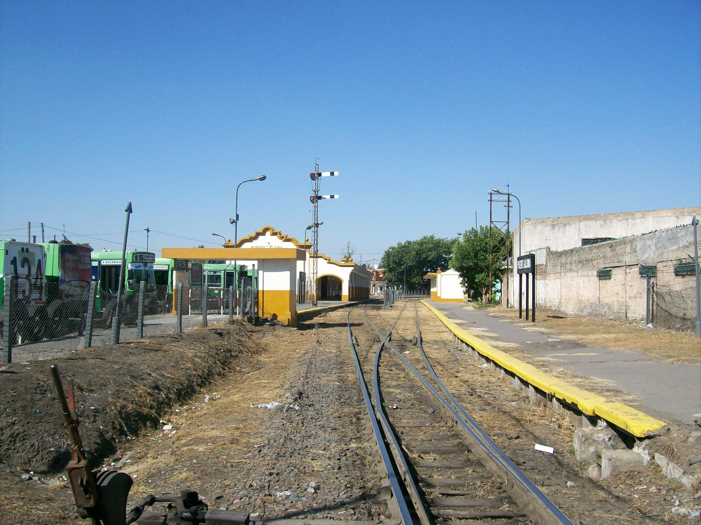 Puente Alsina train station